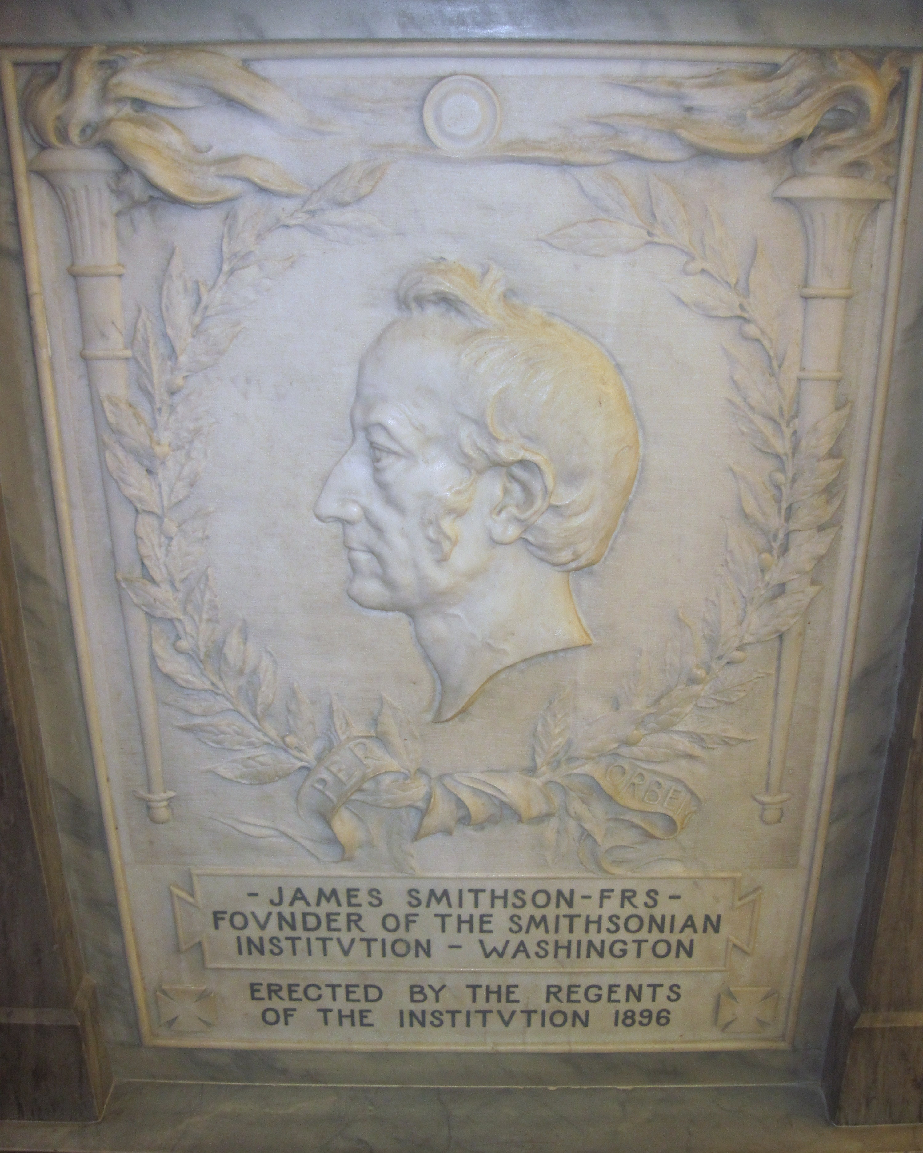 1896 marble grave marker for James Smithson in the crypt of the Smithsonian Institution Building, Washington, D.C.